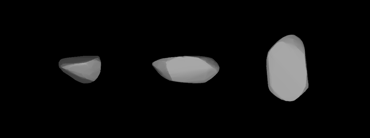 A three-dimensional model of 302 Clarissa that was computed using light curve inversion techniques.